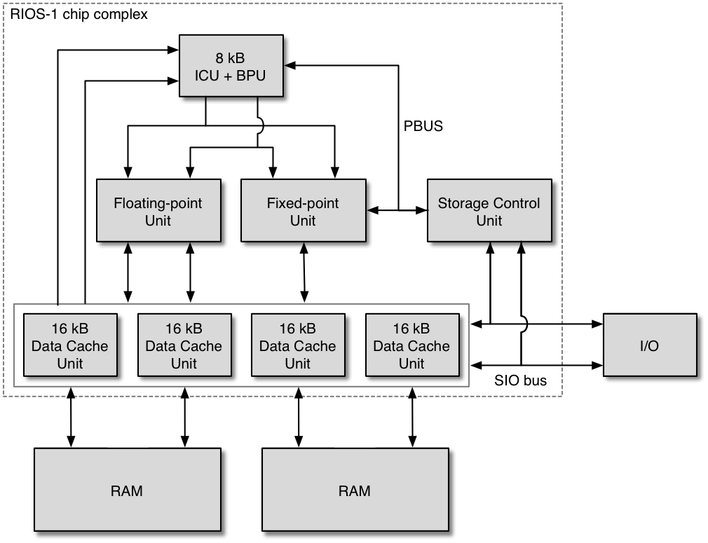 A schematic overview of the chip complex of a POWER1 (RIOS-1) processor.